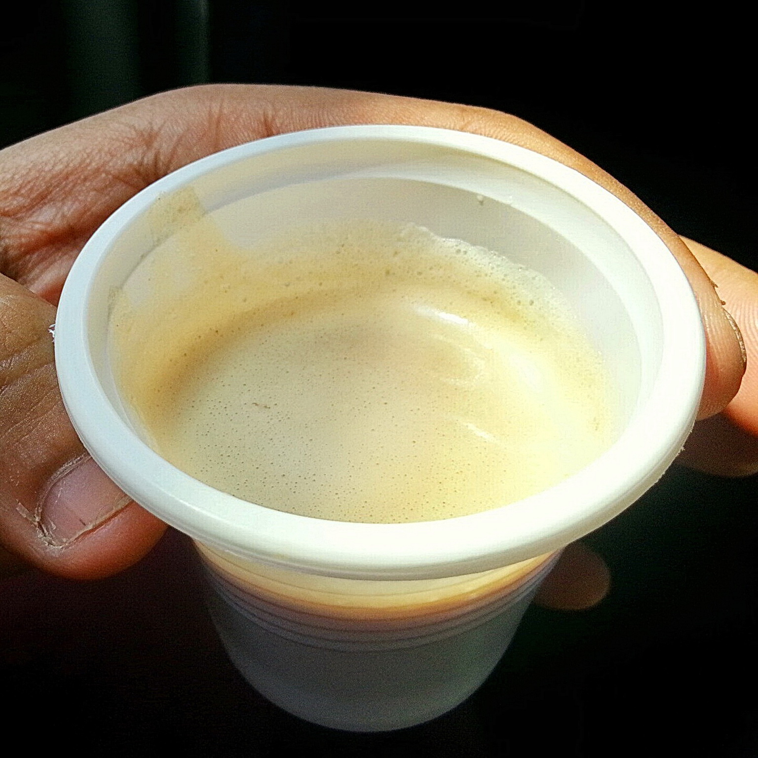 Consumed as a modified version of the traditional tea, this “spiced” tea is flavoured with spices like cinnamon and cardamom. Here in the photo, taken near Mainamati Cantonment in Comilla, Bangladesh, the tea is covered with a layer of cream which appeared as result of blending during preparation.